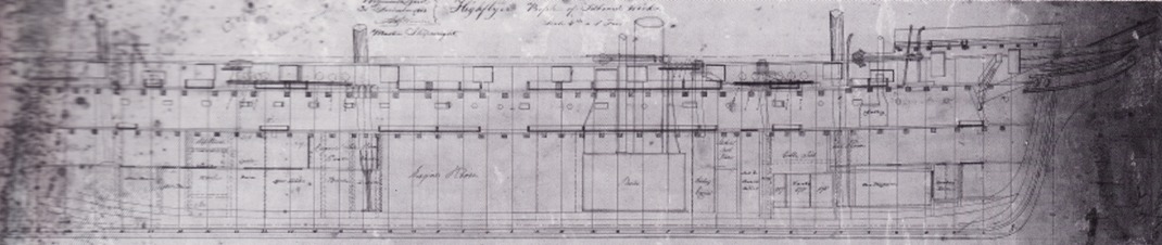 Profile of the screw corvette HMS Highflyer (DR8084)